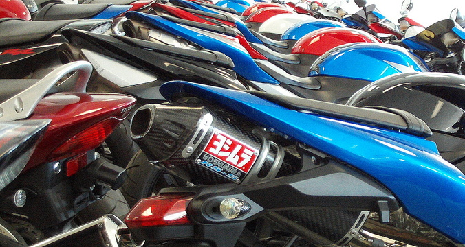 A high impact shot of a Honda motorcycle 2008 CBR600RR. Feel free to use image if you like it I only ask the users to have a photo credit included as this is how I make a living or you can link the image to where you can find more images available. thank you PETER WARREN aka peter PARTs